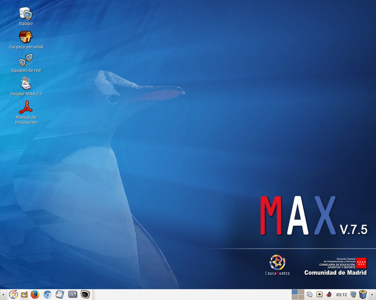 MAX 7.5 DeskTop